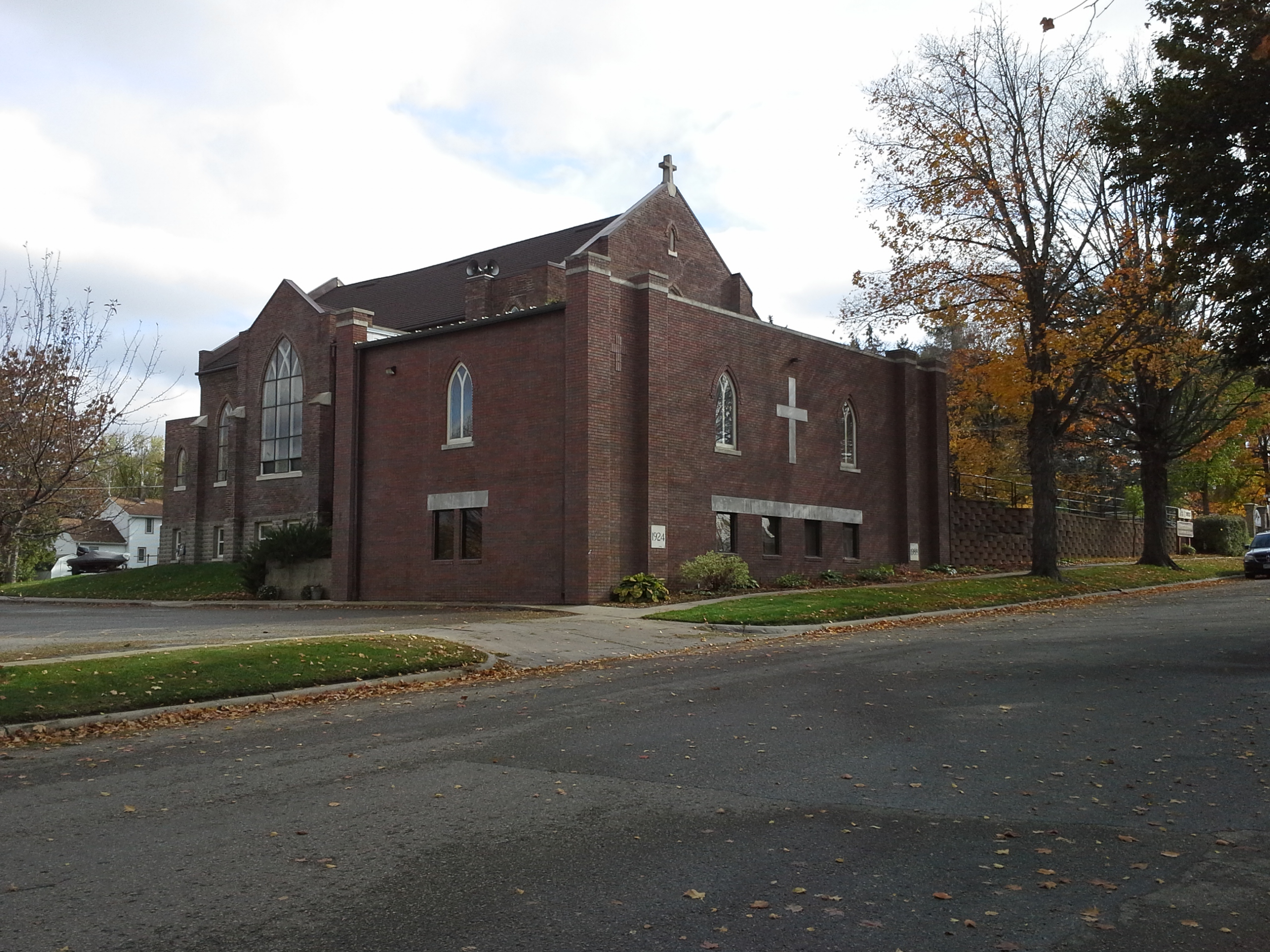 Christ Lutheran Church of the Wisconsin Evangelical Lutheran Synod (WELS) in Zumbrota, MN.